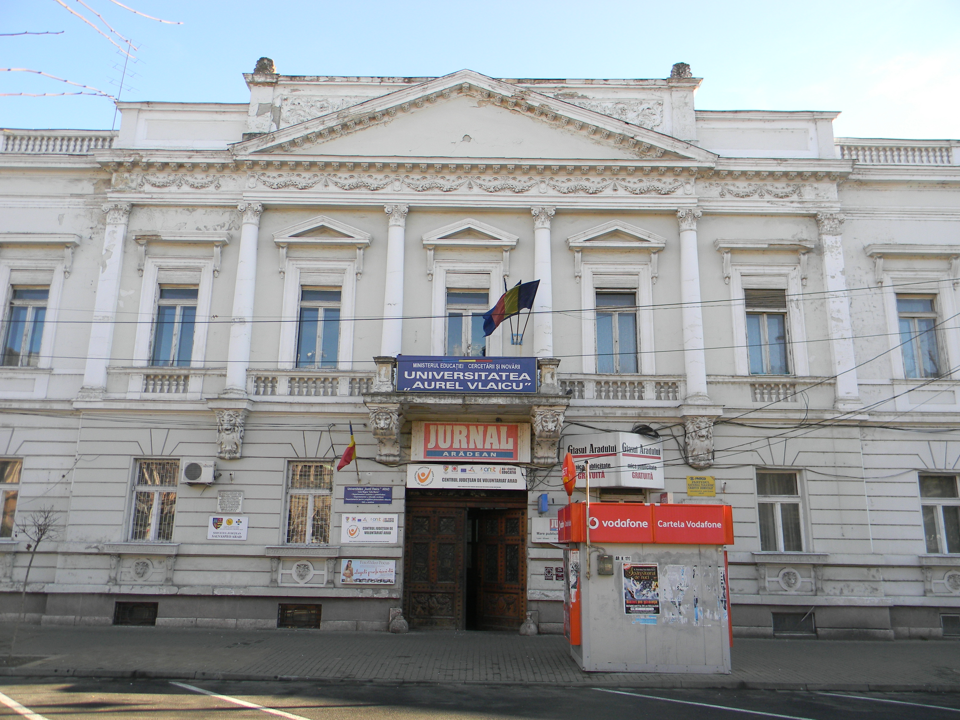 Main Facade